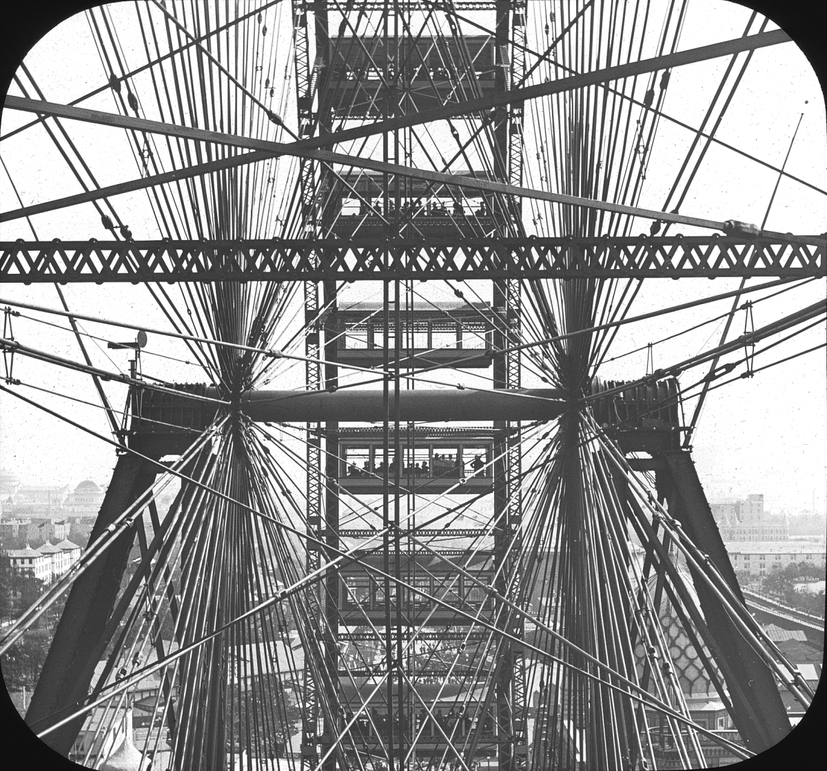 World's Columbian Exposition: Ferris Wheel, Chicago, United States, 1893. [View through support wires from one gondola to gondolas opposite on] Ferris Wheel, Sept.; Starks W. Lewis, Amateur, Brooklyn, N.Y. Brooklyn Museum Archives, Goodyear Archival Collection (S03_06_01_016 image 2193). It helps us to know how our visitors work with our images, so if you use it, we'd love to know how! Drop us a line by leaving a comment here or email our archivist: Help us map this image by using Suggestify to suggest a location for it.